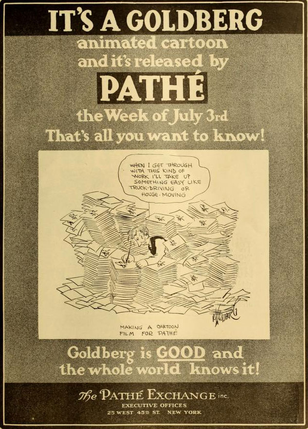 Advertisement in The Moving Picture World